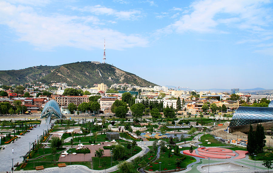 Tbilisi, Georgia — View of the city from Rike Park